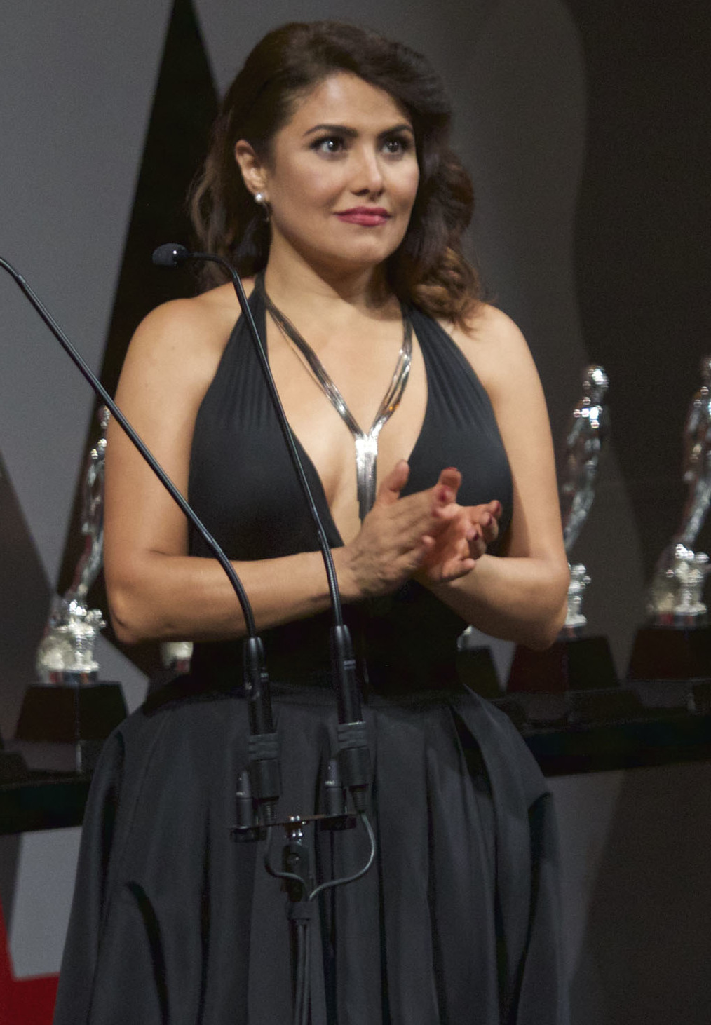 Martes 11 de julio de 2017. En el Palacio de Bellas Artes, se realizó la ceremonia número 59 de la entrega de Premios de la Academia Mexicana de Cinematografía, Ariel. Encabezado por su presienta la actriz Dolores Heredia. MEJOR DIRECCIÓN DE ARTE Jay Aroesty y Carlos Cosío, por La 4ª compañía Fotografía: Milton Martínez / Secretaría de Cultura CDMX